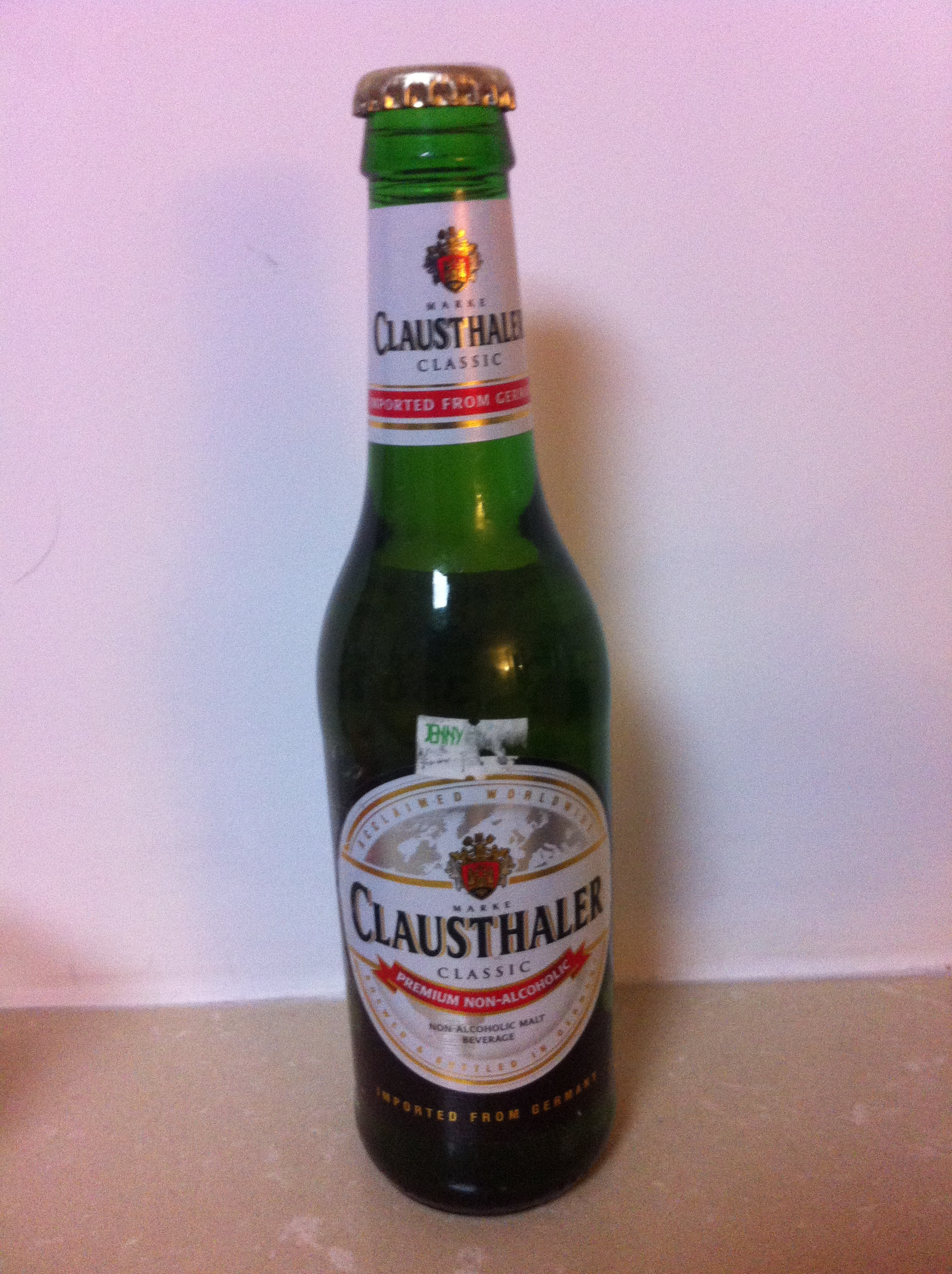 Clausthaler beer bottle